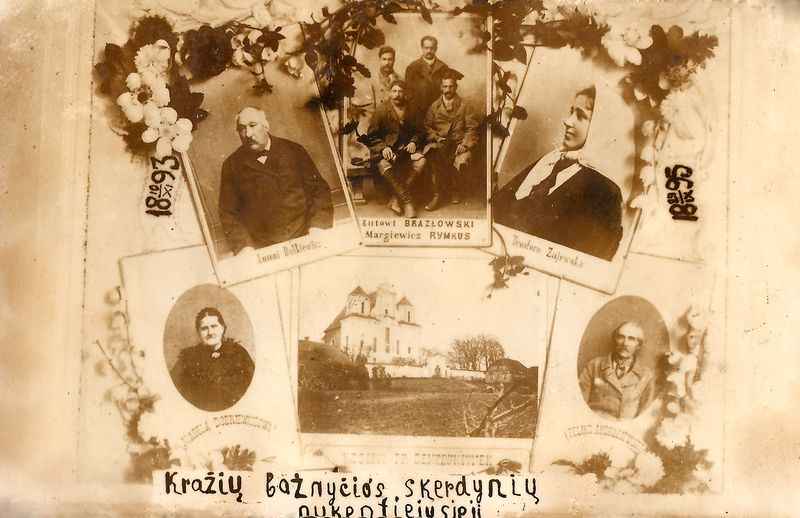 Collage of pictures of people involved in the Kražiai Massacre (collage created in 1933 for the 40th anniversary of the events)